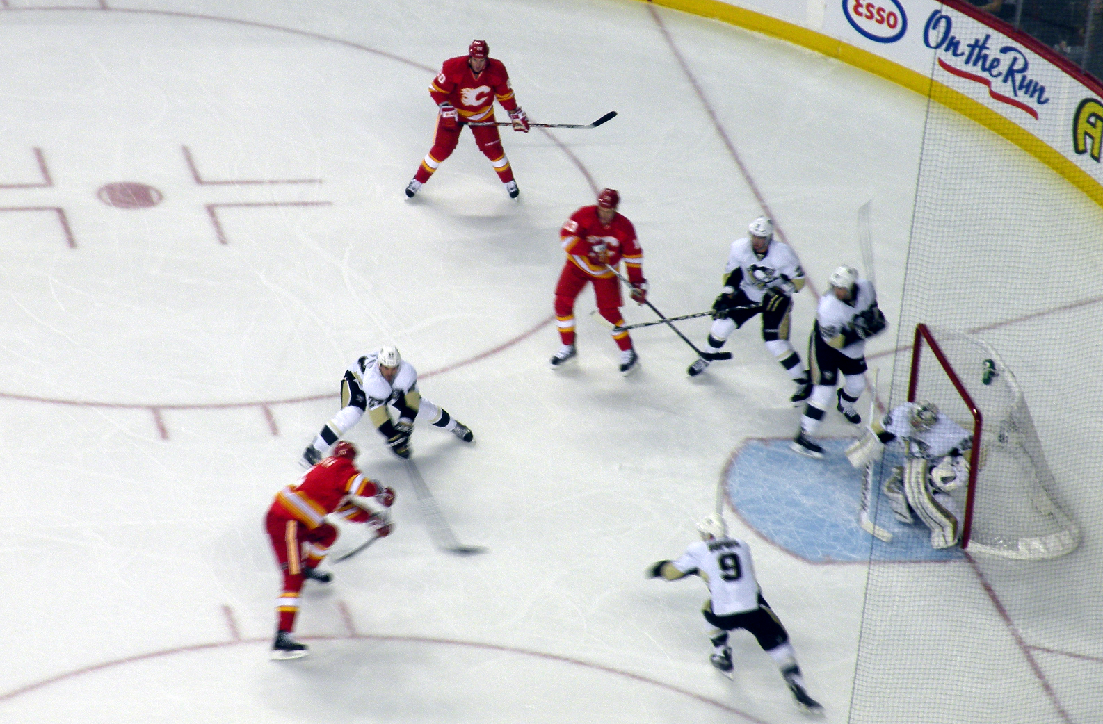 The Calgary Flames press the Pittsburgh Penguins during the season opener at the Scotiabank Saddledome in Calgary